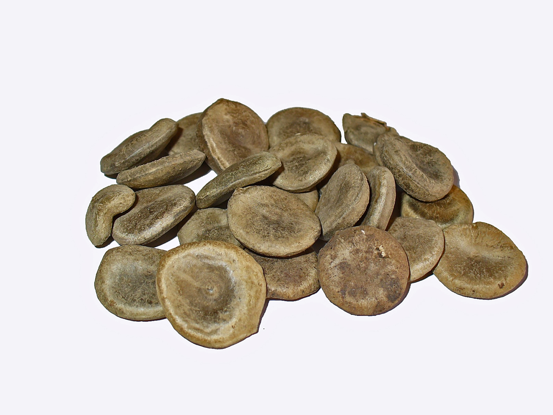 Strychnos nux-vomica, Strychnine tree, seeds. Private collection, therefore not geocoded.